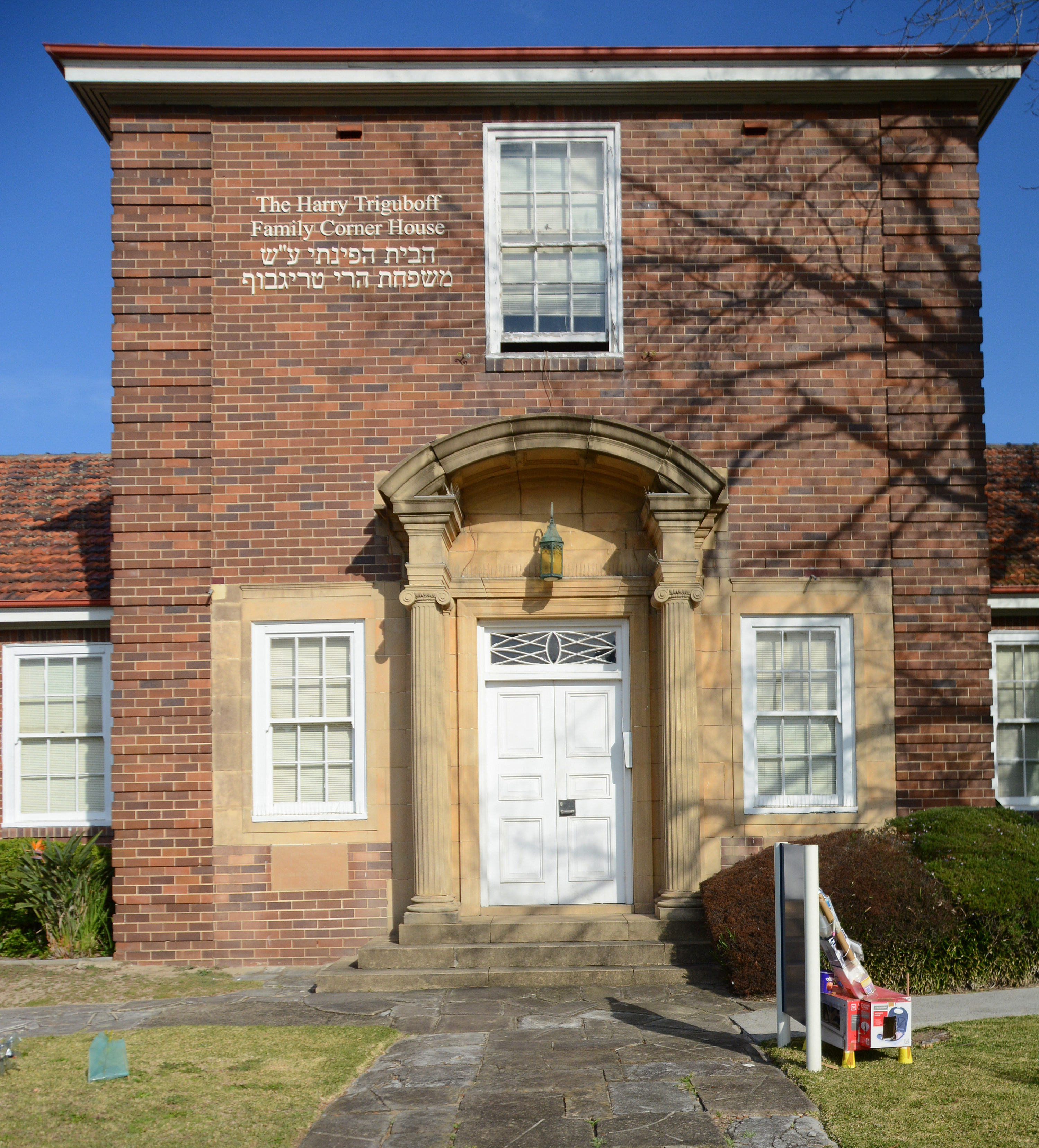 Harry Triguboff Family Corner House, Moriah College, York Road, Queens Park, Sydney